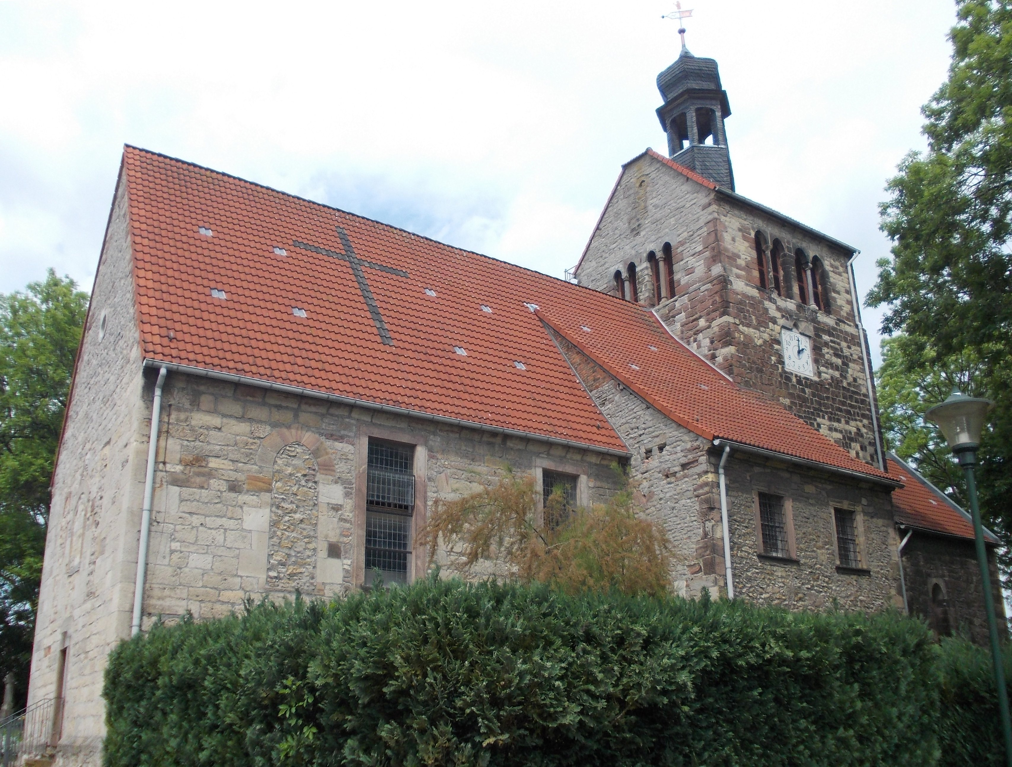 St. Peter's Church in Obhausen (district: Saalekreis, Saxony-Anhalt)